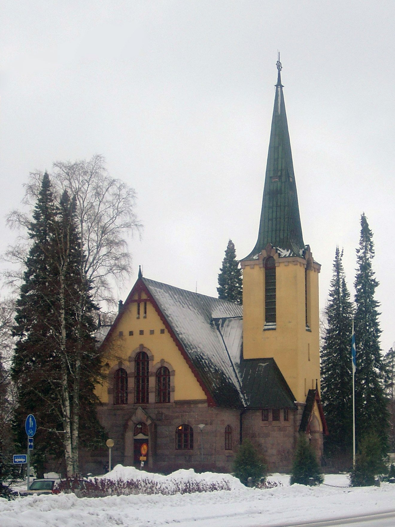 Church of Humppila, Finland